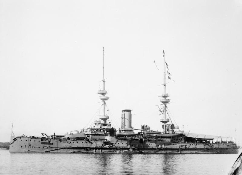 Majestic Class Battleships- Hms Victorious HMS VICTORIOUS under way, 1903.